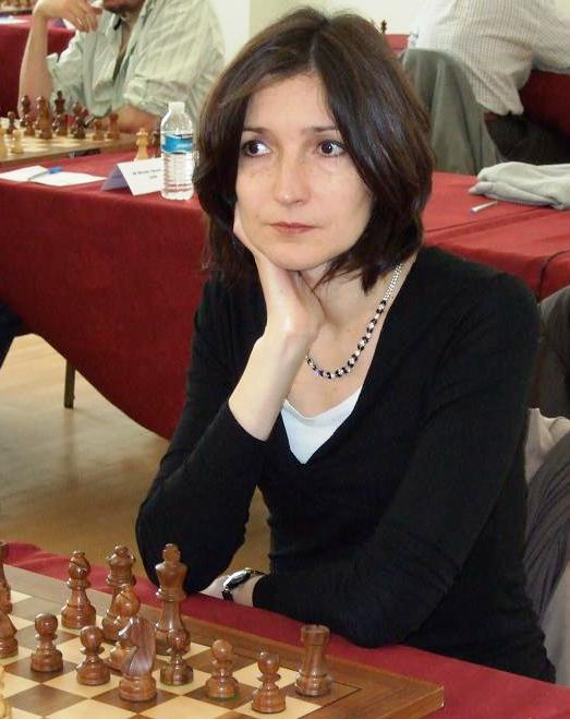 IM (& WGM) Ketevan Arakhamia-Grant - Round 6 of 4th EU Individual Open Ch., Liverpool World Museum, William Brown Street